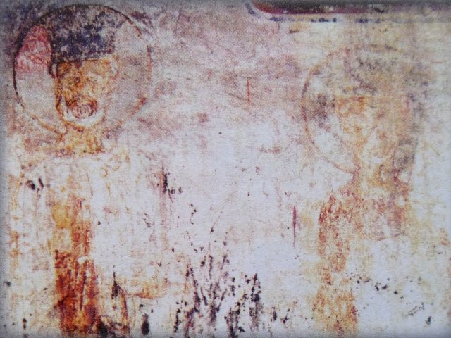 Kings of Imereti - Constantine I (1293-1327) & Michael I (1327-1329). Mural from the Gelati church